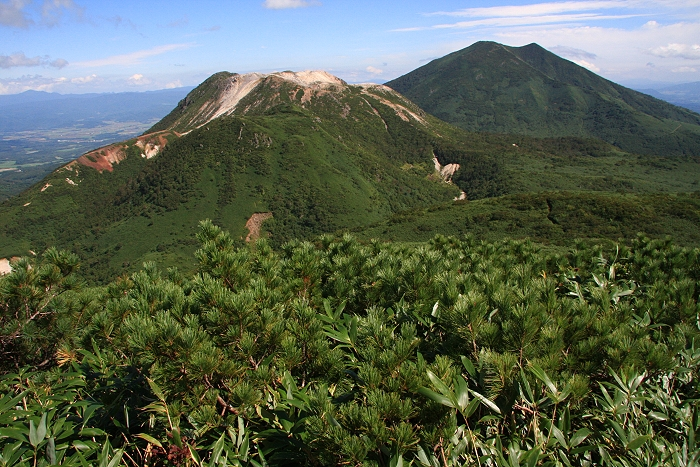 The East side of Mount Iwaonupuri (on the left) and Mount Niseko-Annupuri (in the far right) seen from Mount Nitonupuri.